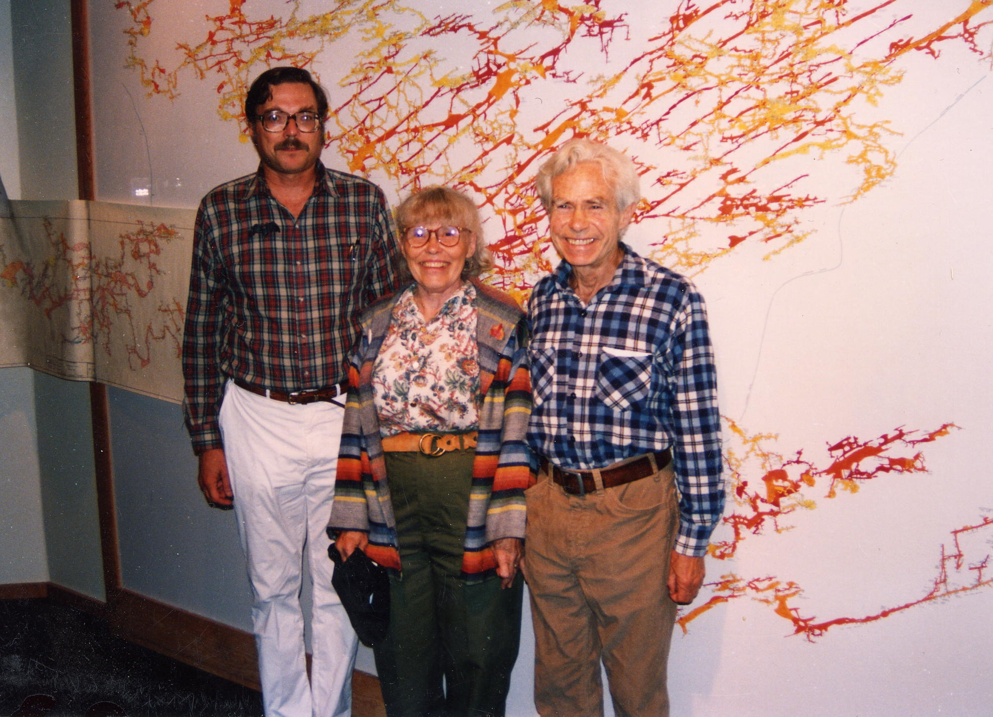 Dwight Deal, Jan and Herb Conn in the Visitor's Center of Jewel Cave National Monument in 1989 on the 30th anniversary of the Deal-Conn exploration effort (50 miles in the dark). Note in the background, that Jewel Cave was always running off of Herb's maps of the cave. No sooner did the Park Service put up this nice map display of the cave, the cave allowed exploration to take off to the west.